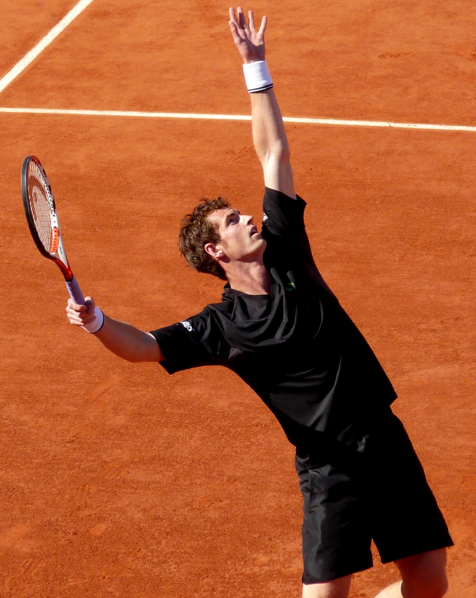 Andy Murray against Janko Tipsarević in the 2009 French Open third round